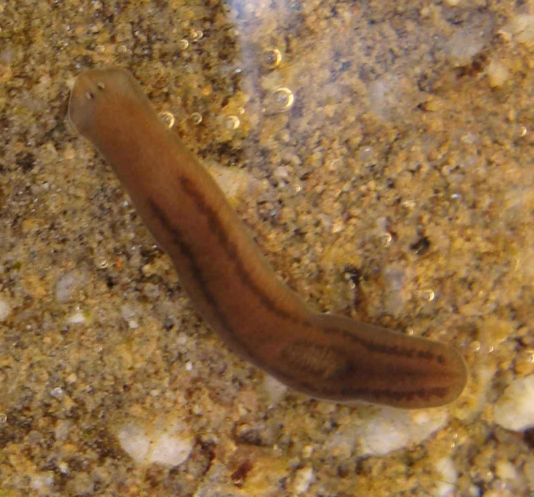 Recurva sp. from Paros, Greece.